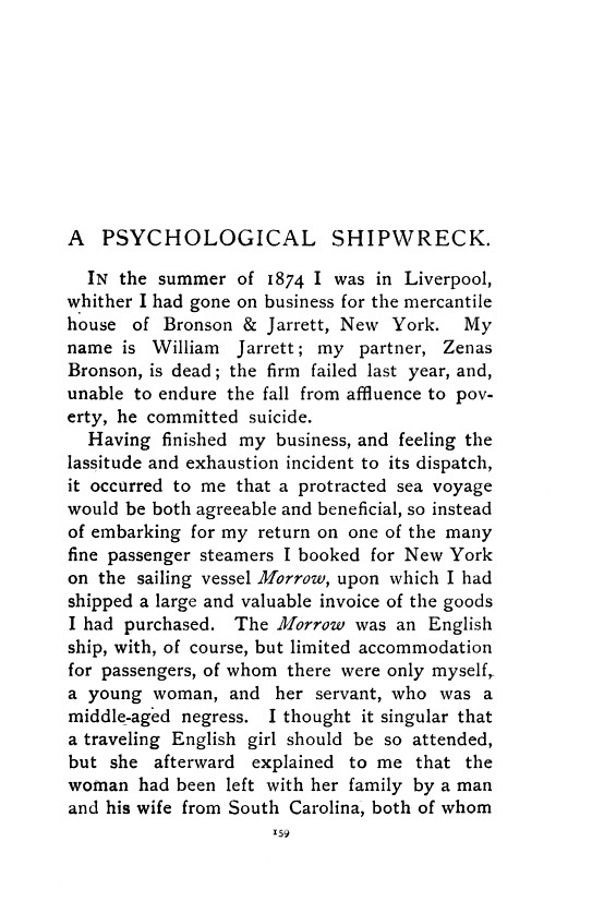 First page to "Psychological Shipwreck", a short story, as published in Can Such Things Be? by Ambrose Bierce (1842-1914?). New York: The Cassell Publishing Co., 1893